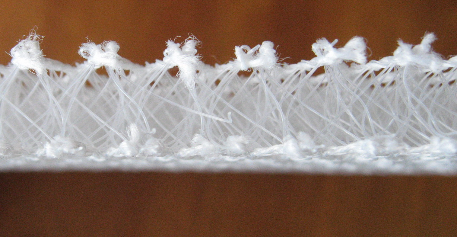 Spacer fabric cross section